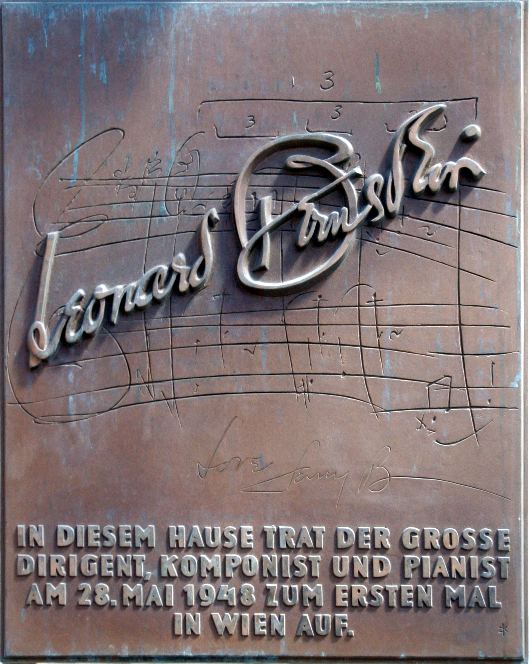 Konzerthaus in Vienna